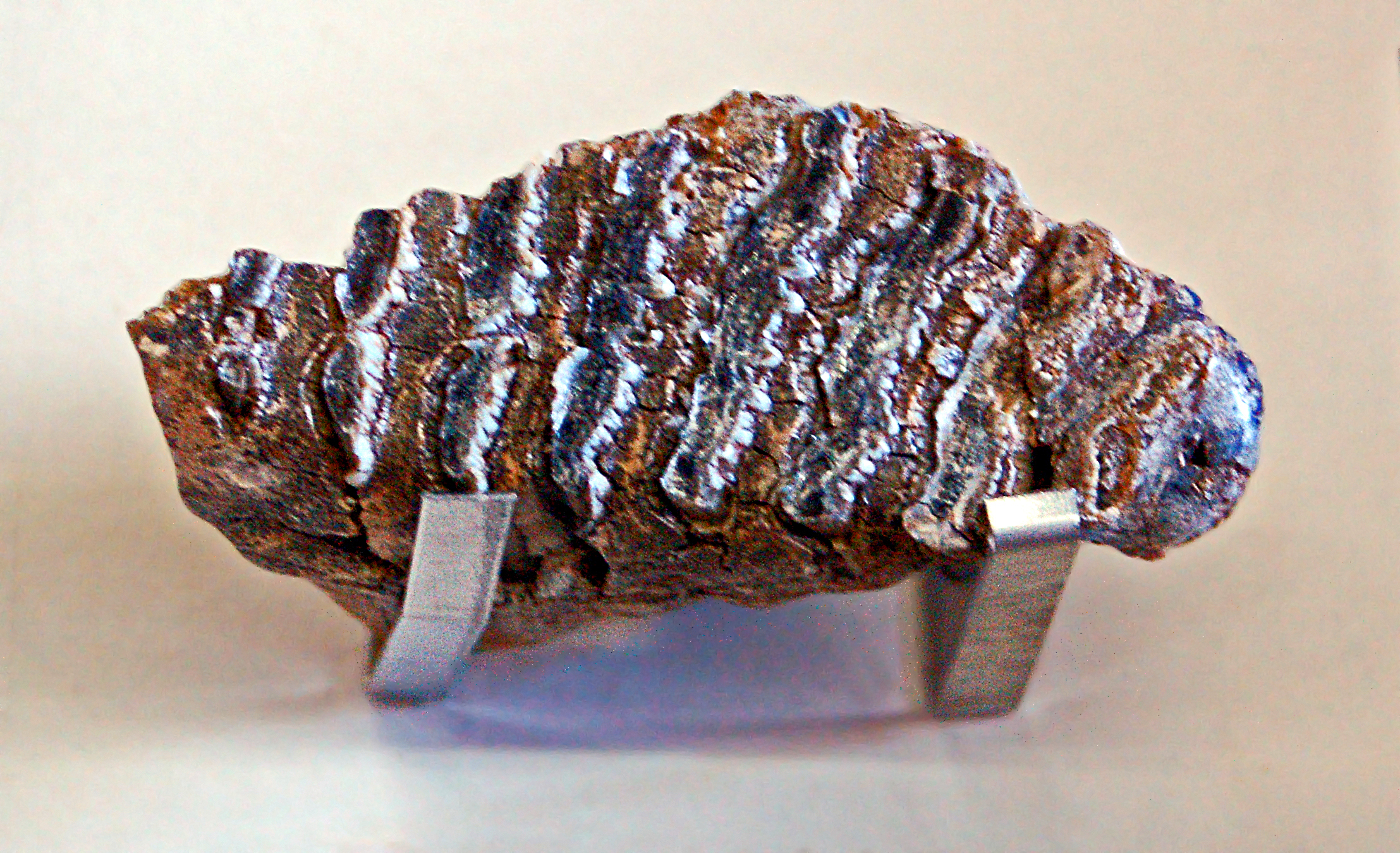 Molar of Mammuthus trogontherii at the National Museum (Prague)